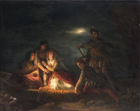 Maria Stuart's Escape from Lochleven